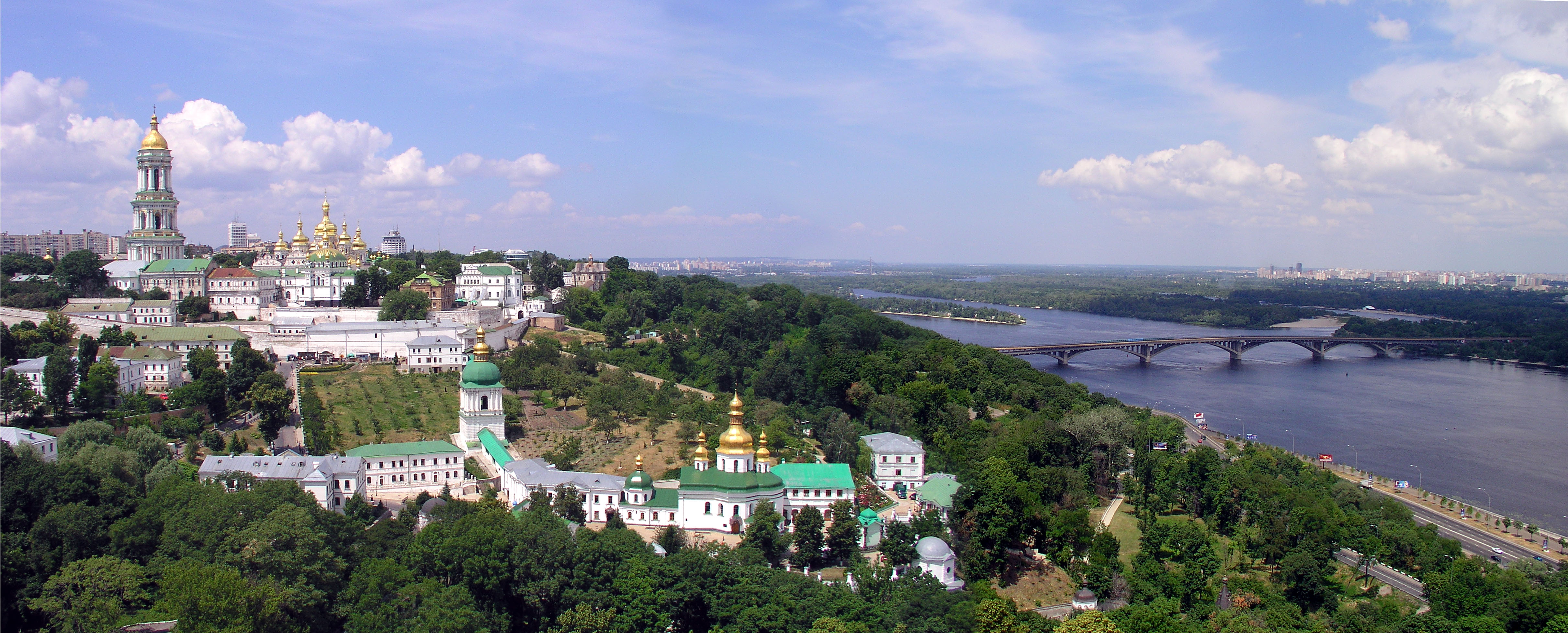 Template:Ua.